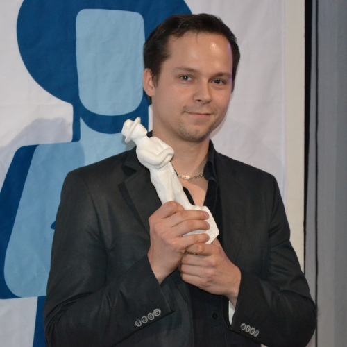 Mika Orasmaa in 2010 Jussi Award.